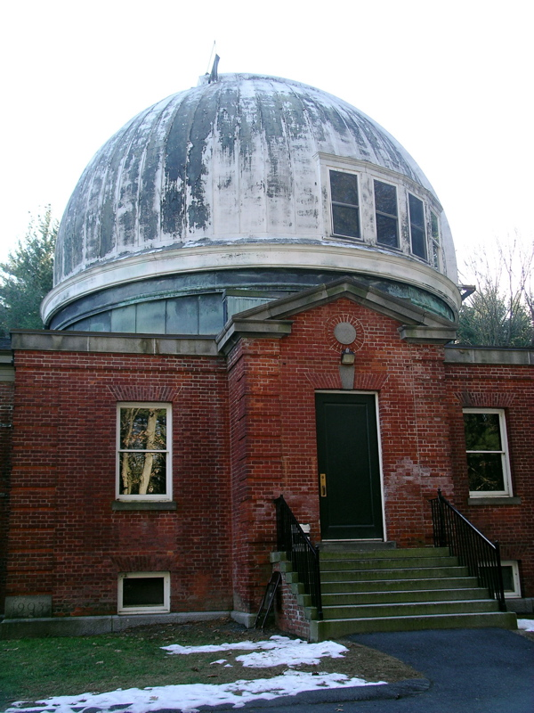 Wilder Observatory at Amherst College, taken by User:pjmorse in December, 2003.